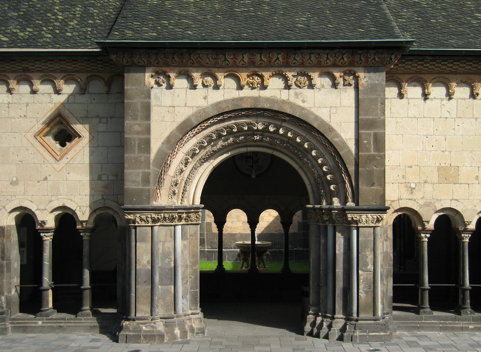 the atrium